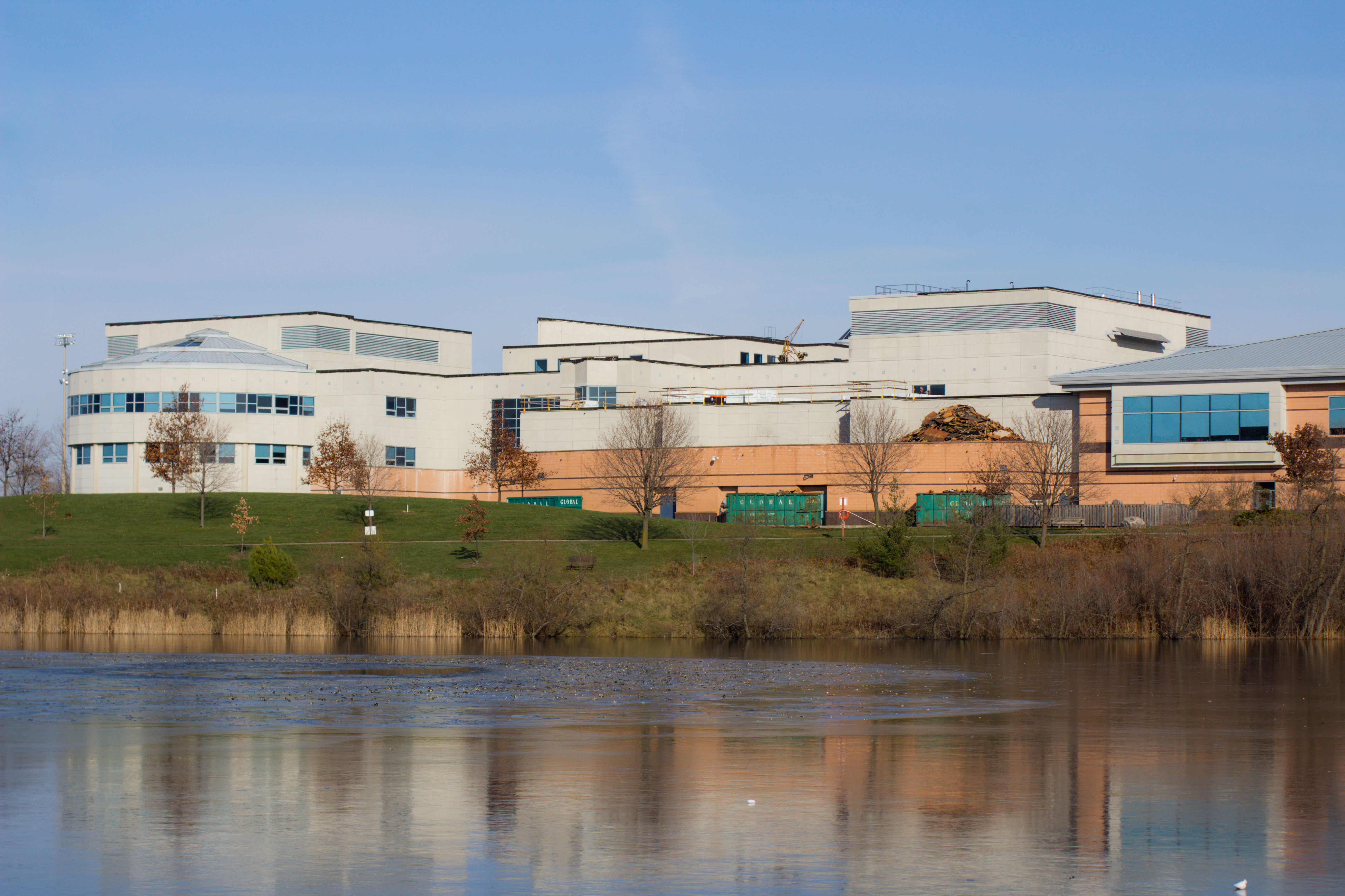 Mary Ward Catholic Secondary School looking from the pond in L'Amoreaux Park.